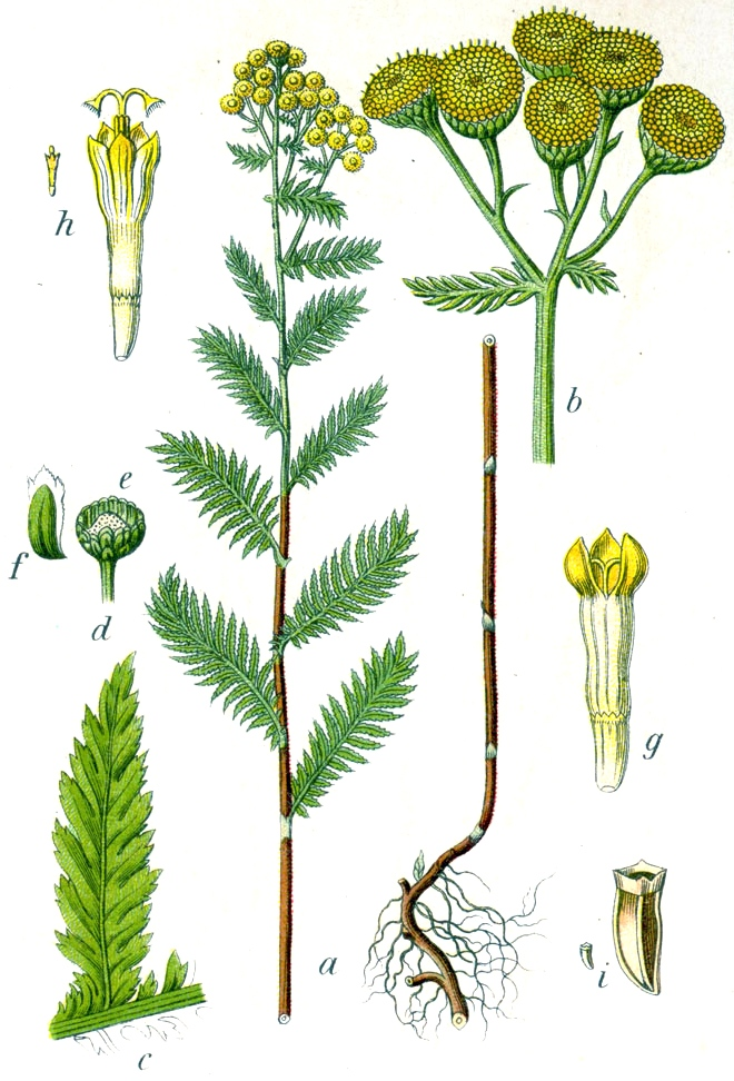 Tanacetum vulgare L., syn. Chamaemelum tanacetum (Vis.) E.H.L.Krause Original Description Echter Rainfarn, Chamaemelum tanacetum